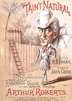 Sheet music for the song "'Tain't Natural" sung by Arthur Roberts in Robinson Crusoe